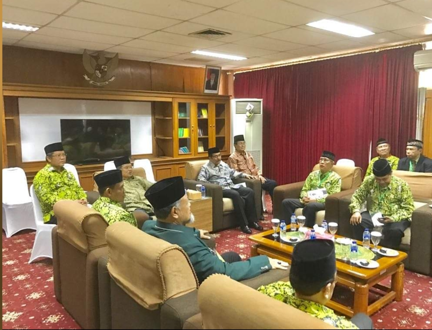 Bambang Santoso Bersama Wapres JK, Menteri ATR/BPN Sofyan Djalil, Menteri KOMINFO Rudiantara dan para tokoh dan pejabat lainnya.